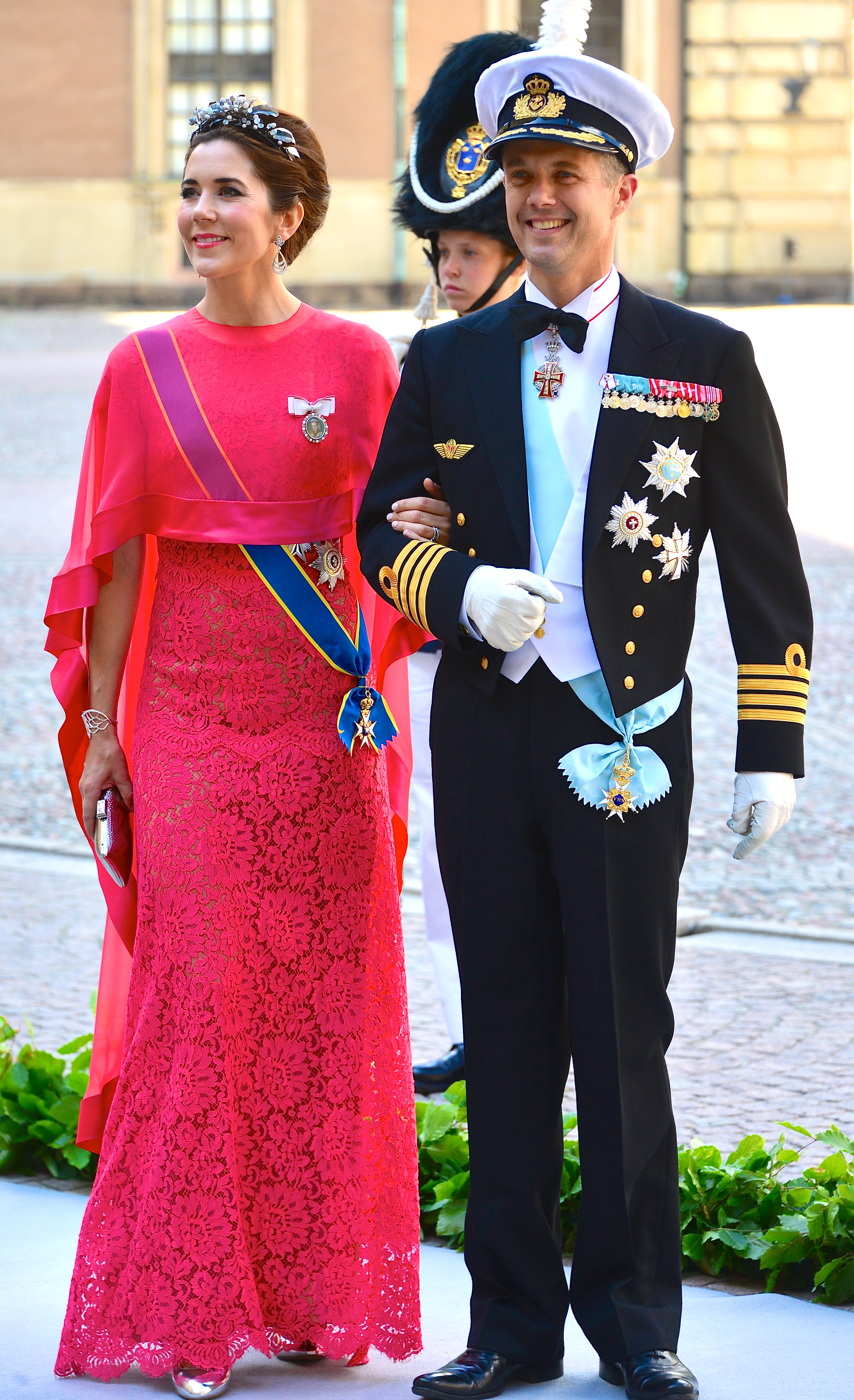 Frederik, Crown Prince of Denmark and Mary, Crown Princess of Denmark on the way to the castle church at the Royal Palace in Stockholm before the wedding between Princess Madeleine and Christopher O'Neill June 8, 2013.